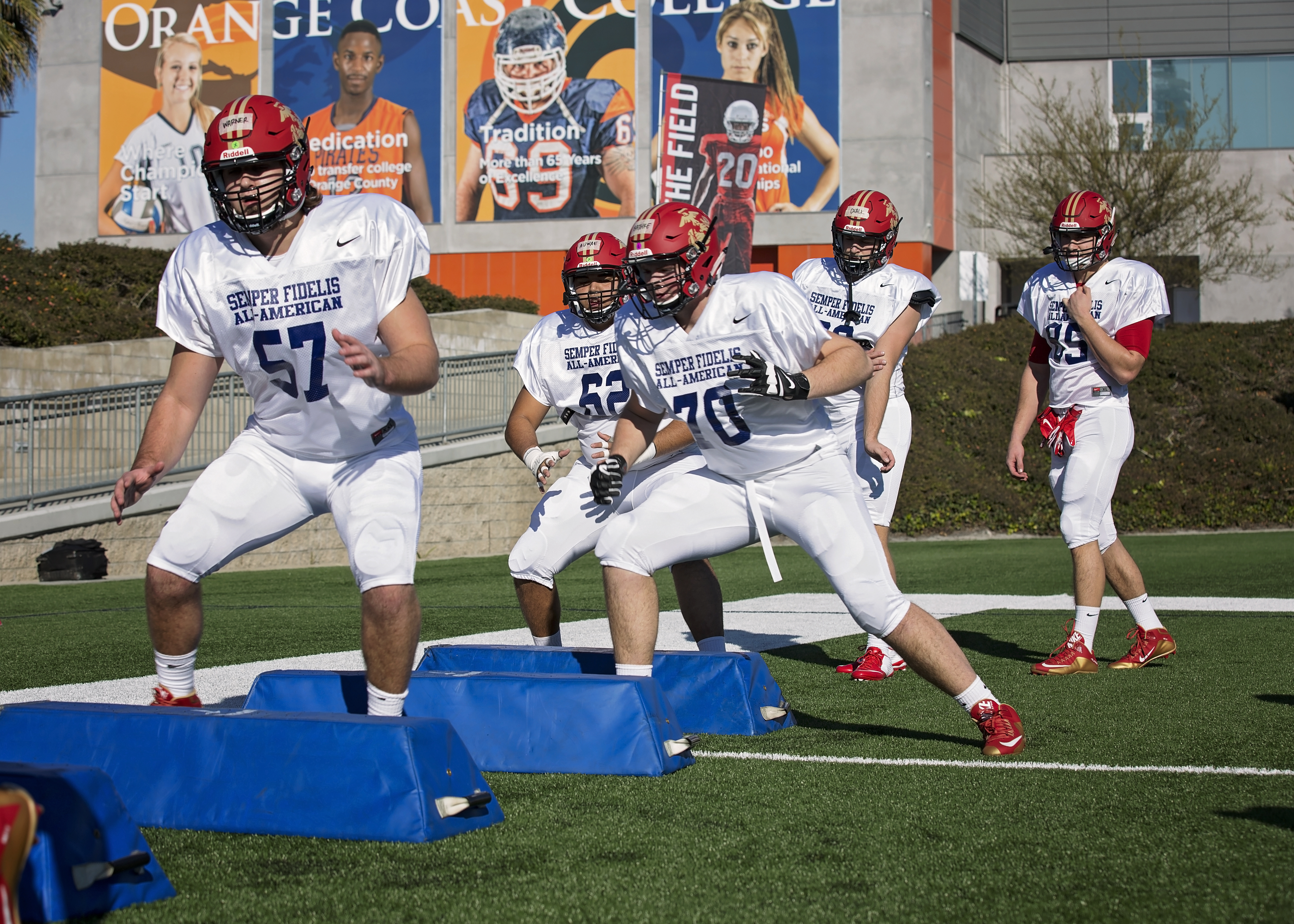 Offensive linemen for the West Team run through agility drills during their first practice at Orange Coast College, Costa Mesa, Calif., Dec. 30, 2015. High School athletes chosen to play in the Semper Fidelis All-American Bowl are well-rounded individuals on and off the field who not only are distinguished athletes, but also have academic achievements and display exemplary moral characteristics. (U.S. Marine Corps photo by Sgt. Rebecca Eller) Unit: 8th Marine Corps District DVIDS Tags: Marine Corps; Marines; All-American; Semper Fidelis Bowl; Semper Fi Bowl; SFAAB; Semper Fidelis Football; Semper Fi football